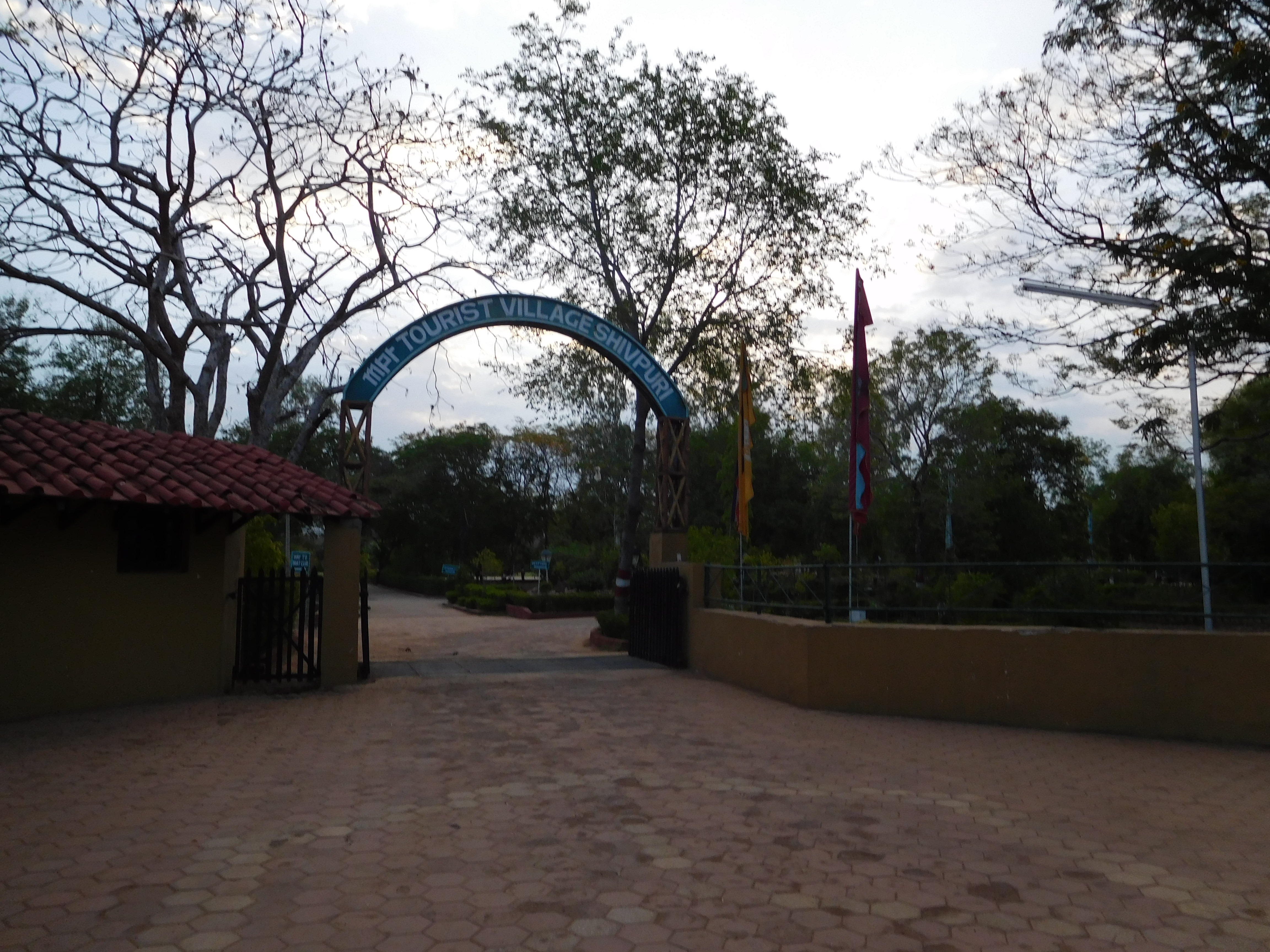 Tourist Village Shivpuri, Madhya Pradesh,India